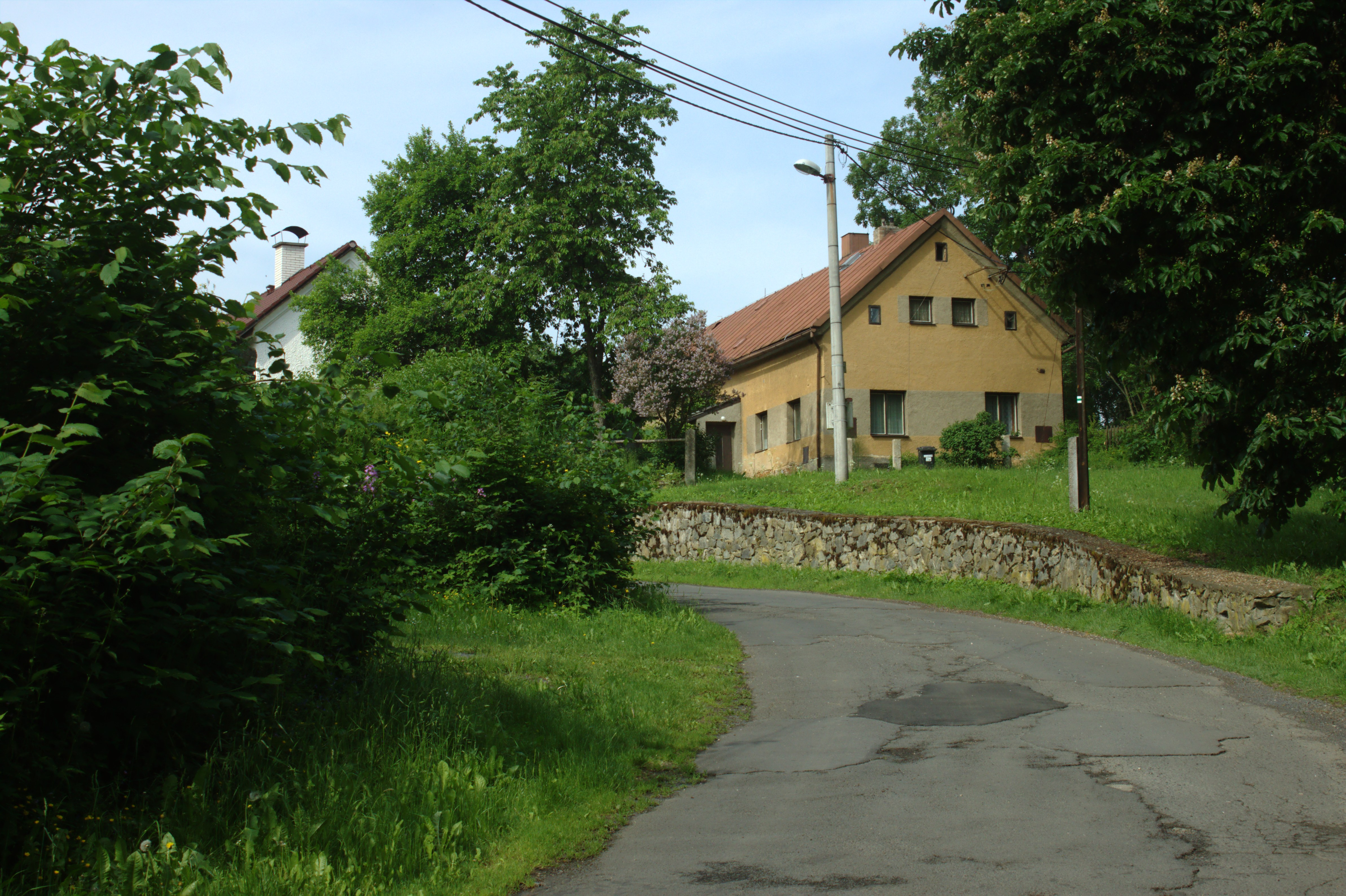 A road in the village of Martinov near Mariánské Lázně